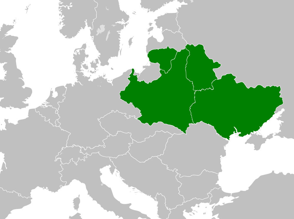 Map of the initial plan of the Intermarium by Józef Piłsudski. It’s borders reflects the old Polish-Lithuanian commonwealth.